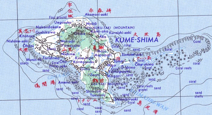 topographic map of Kume Island